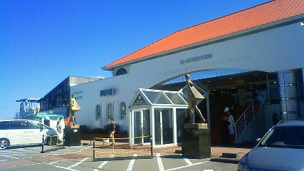 Roadside Station the Utsukushi-ga-hara Open-Air Museum. Roadside Station the Utsukushi-ga-hara Open-Air Museum, Ueda